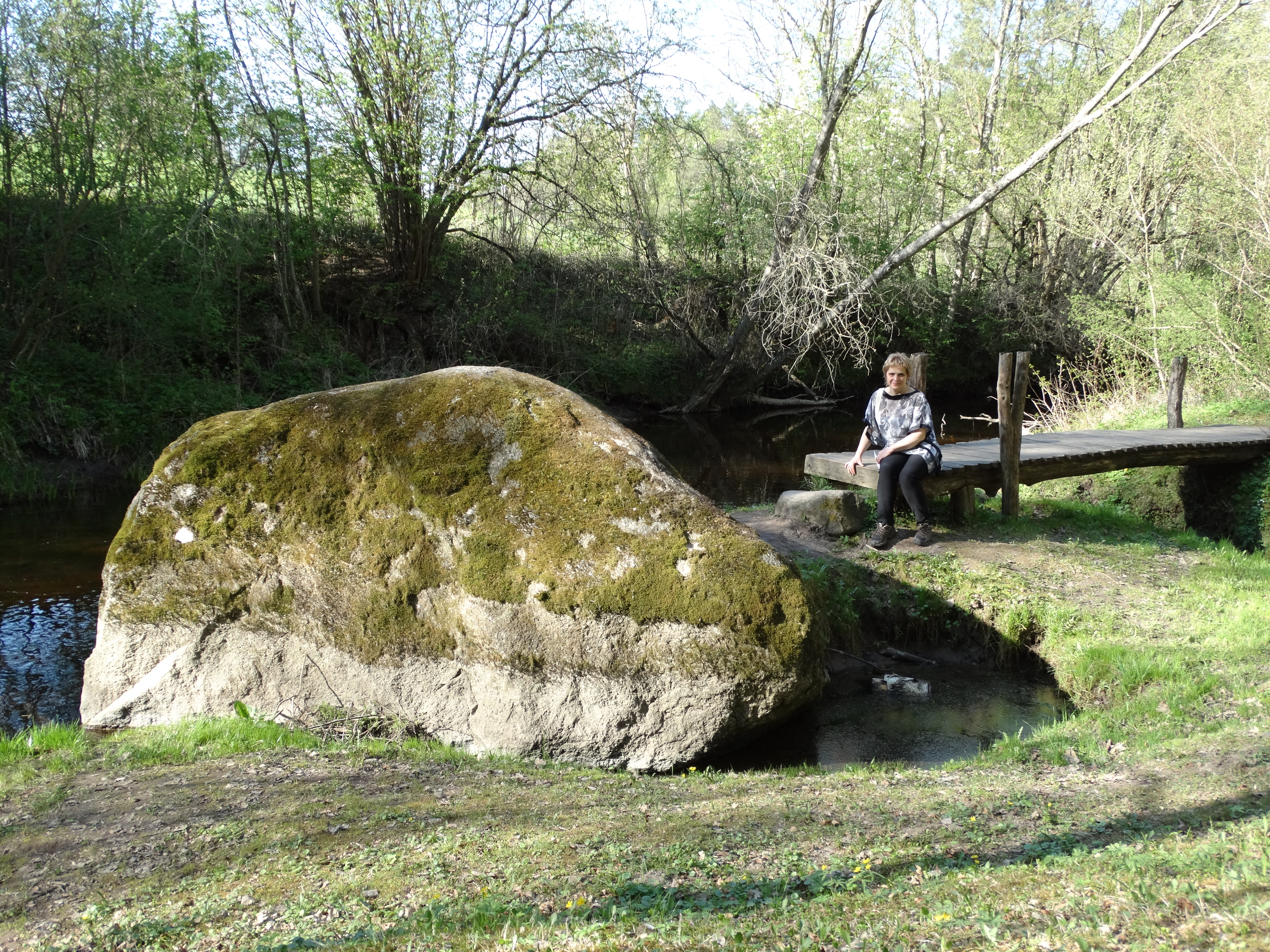 Stone Rapolas, Panevėžys District, Lithuania